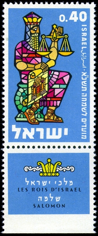 Joyous Festivals 5721 stamp - 0.40 Israeli lira - Kings of Israel: Solomon.